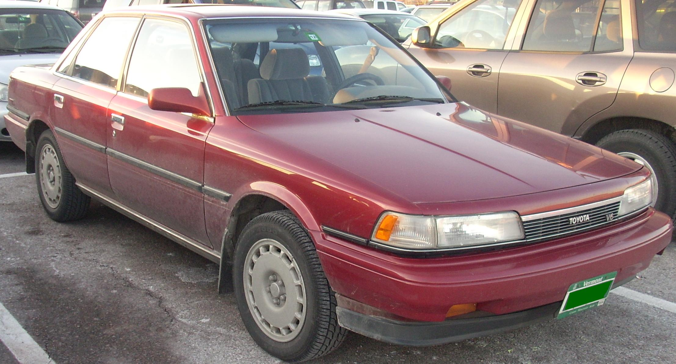 1988–1989 Toyota Camry (VZV21) LE sedan. Photographed in Williston, Vermont, United States.